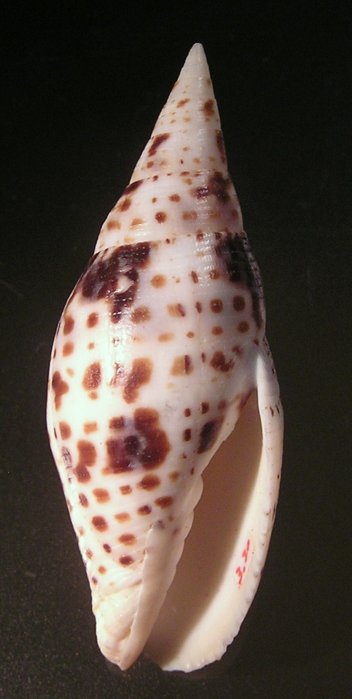 Mitra (Mitra) cardinalis (Gmelin, 1791), a miter snail from the family Mitridae; Indonesia Category:Mitridae